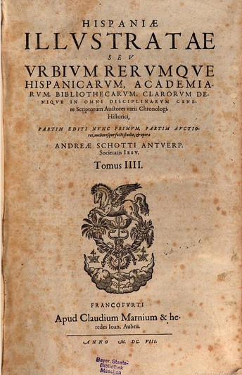 Hispania illustrata, Andreas Schottus, Johann Pistorius, 1608